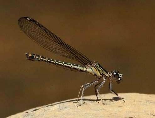 Female Dancing Jewel; Ithala Game Reserve, KwaZulu-Natal